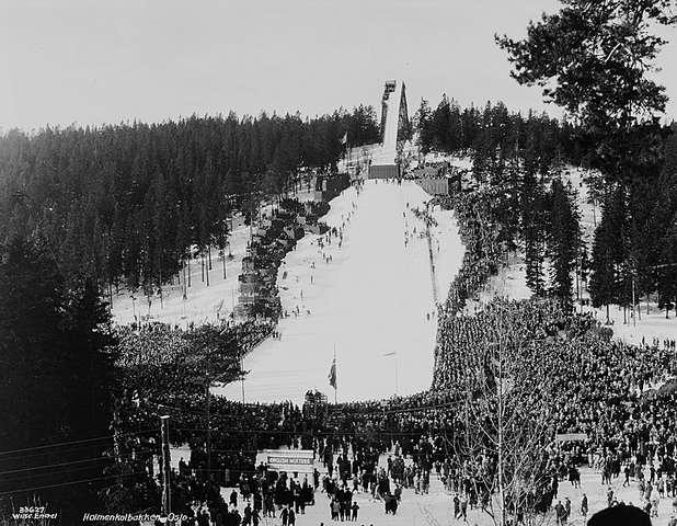 Holmenkollbakken, Oslo